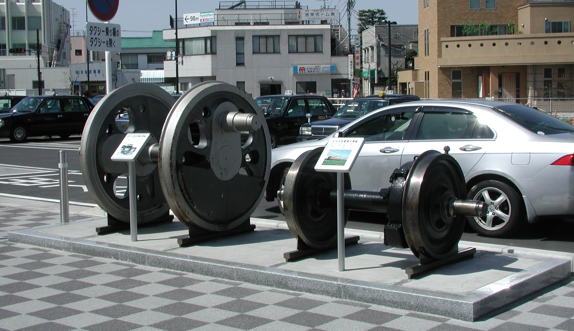 A monument on the west side of Hasuda Station in Saitama, Japan, consisting of the driving wheels of D51 484 and the wheels of a former 115 series EMU